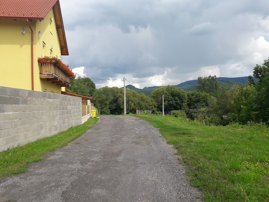 A Dédesi vár Nagyvisnyó-Dédes megállóhelyről nézve